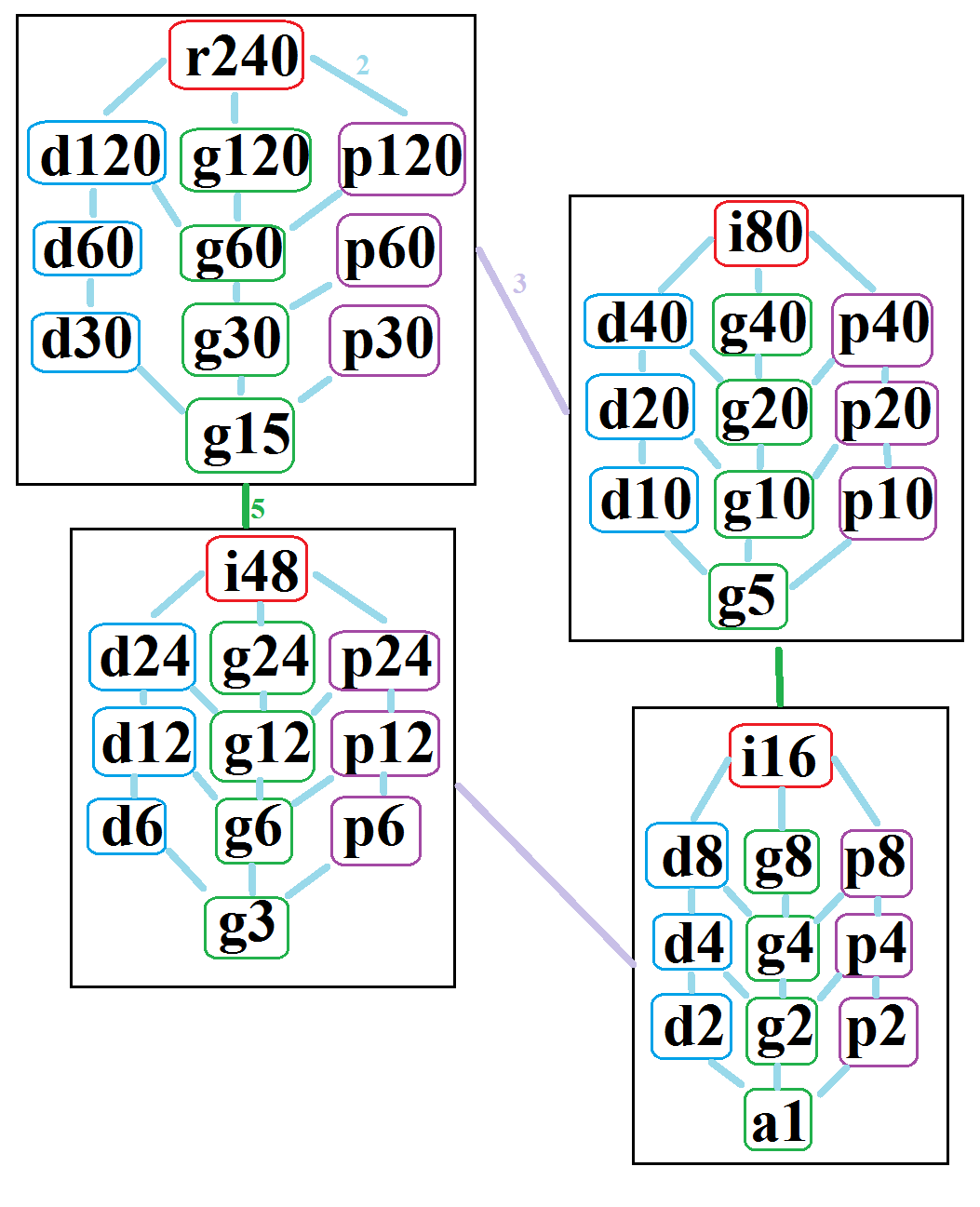 dodecacontagon (120-gon) symmetries